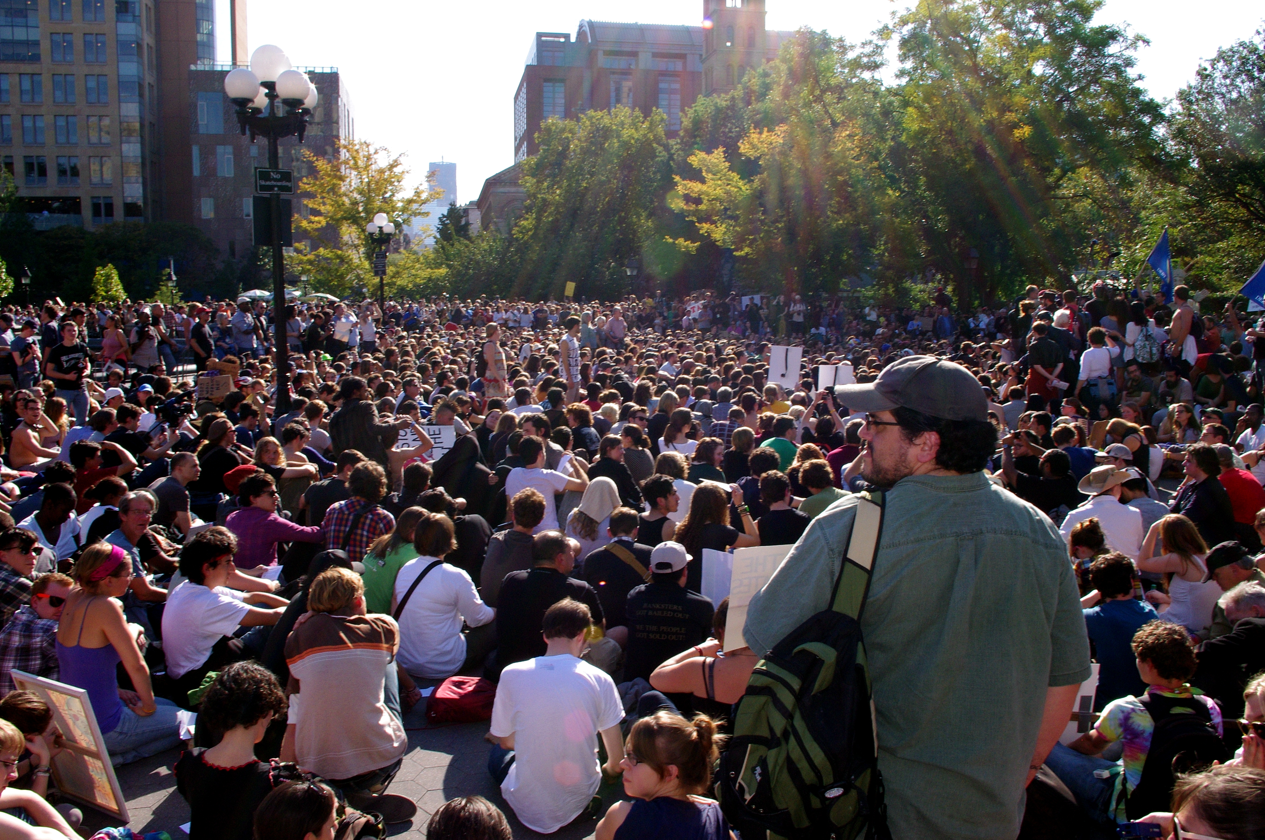 The Occupy Wall Street General Assembly meets in Washington Square Park for the first time on Saturday, October 8.